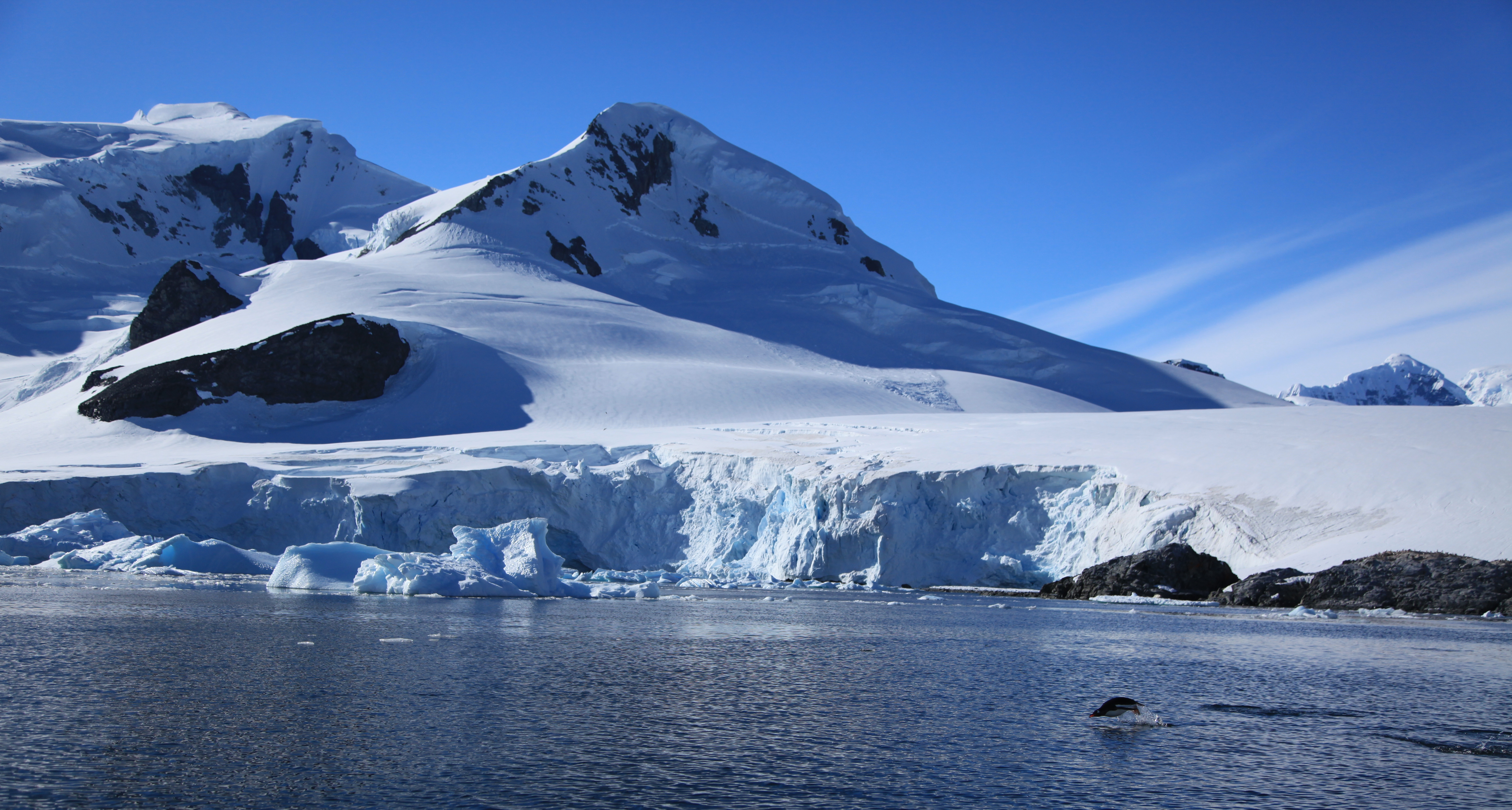 Penguin porpoising in Paradise Harbour, Antarctica